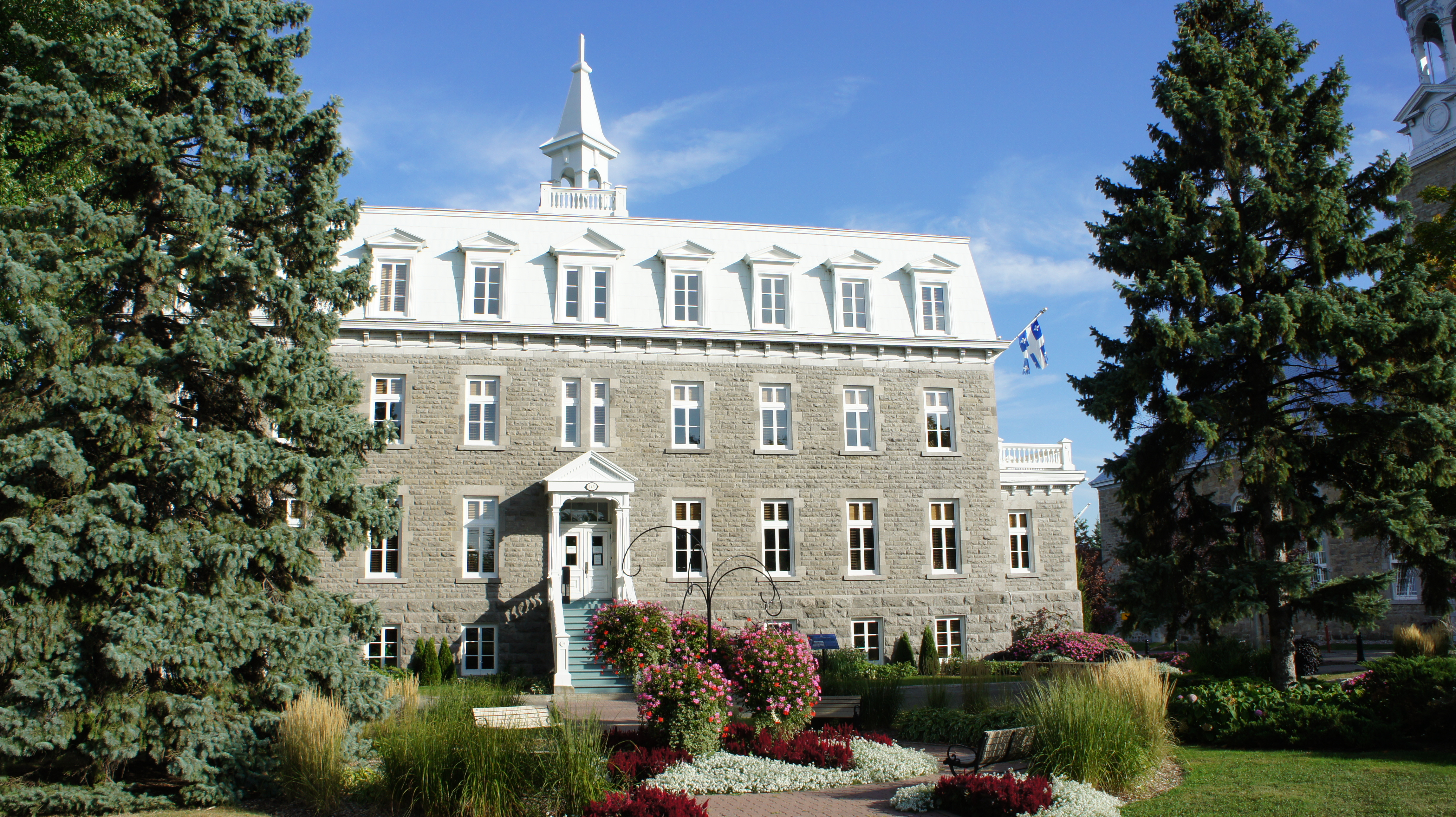 The Saint-Eustache city hall is a former stone conventual building inspired by the French Second Empire, built in 1898 to replace the previous dilapidated convent.